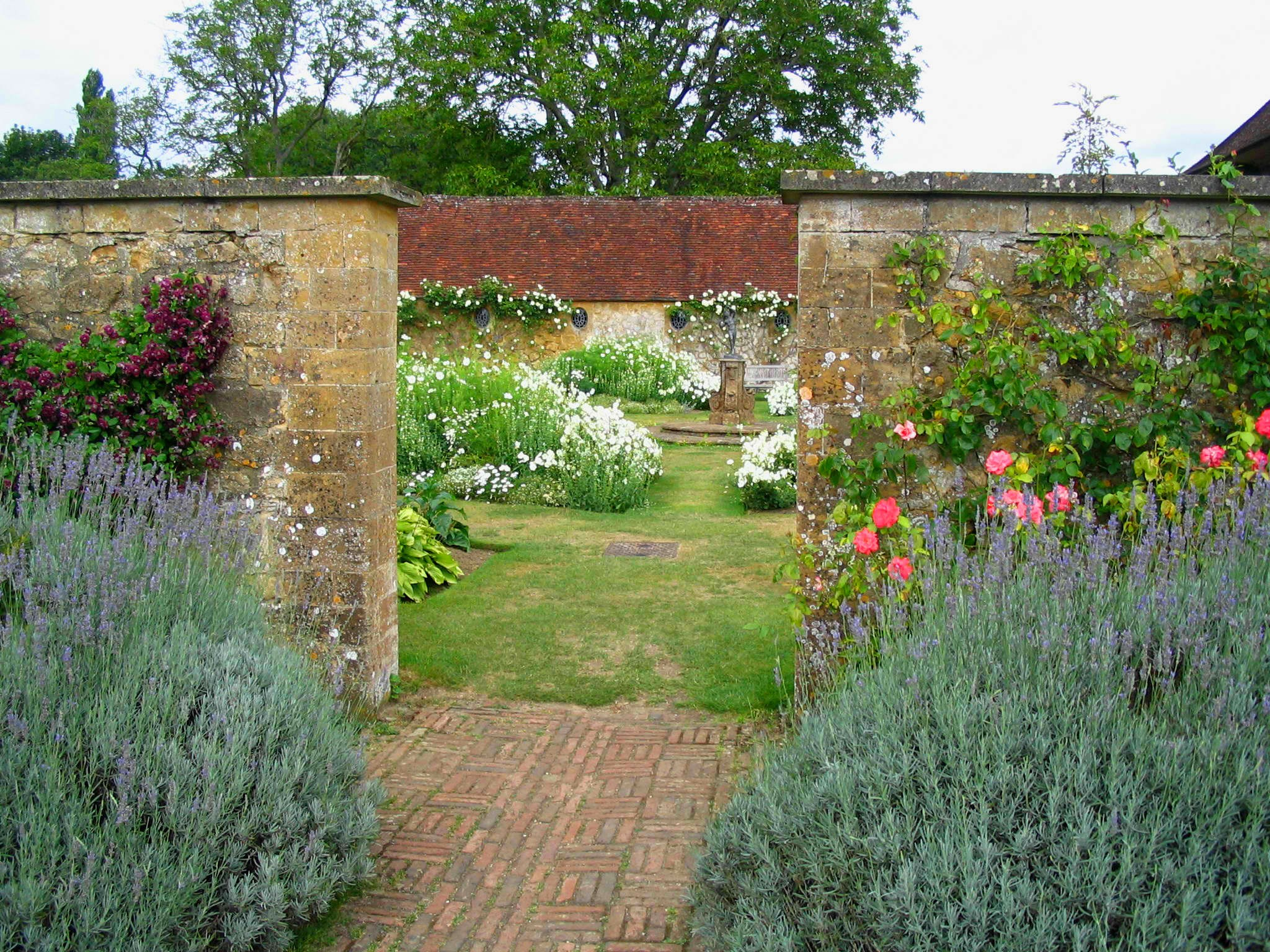 Jardins enclos de Barrington Court Manor par Gertrude Jekyll - Angleterre Auteur: P Charpiat - 2006